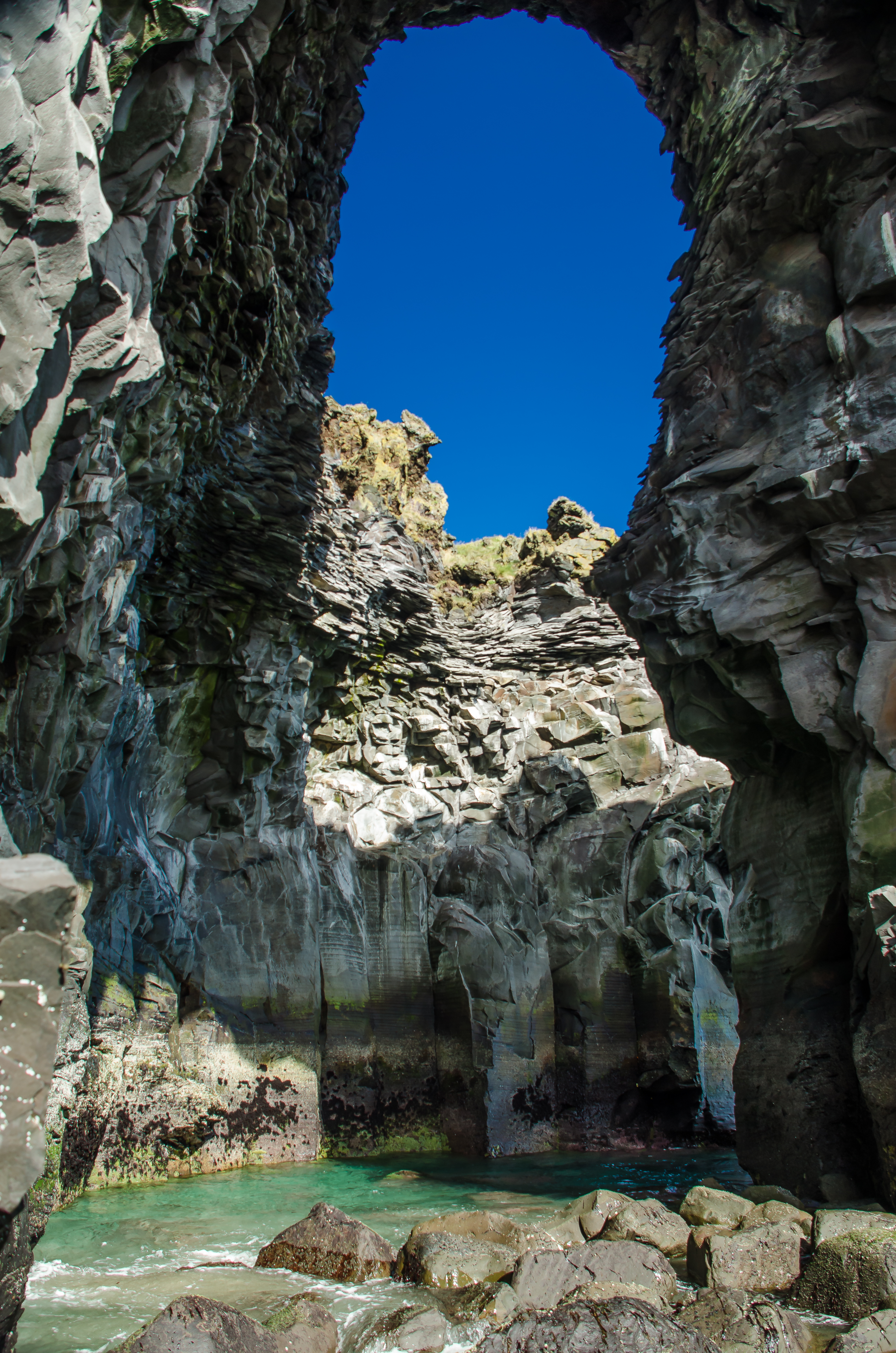 Baðstofa, Hellnar, Island / Iceland